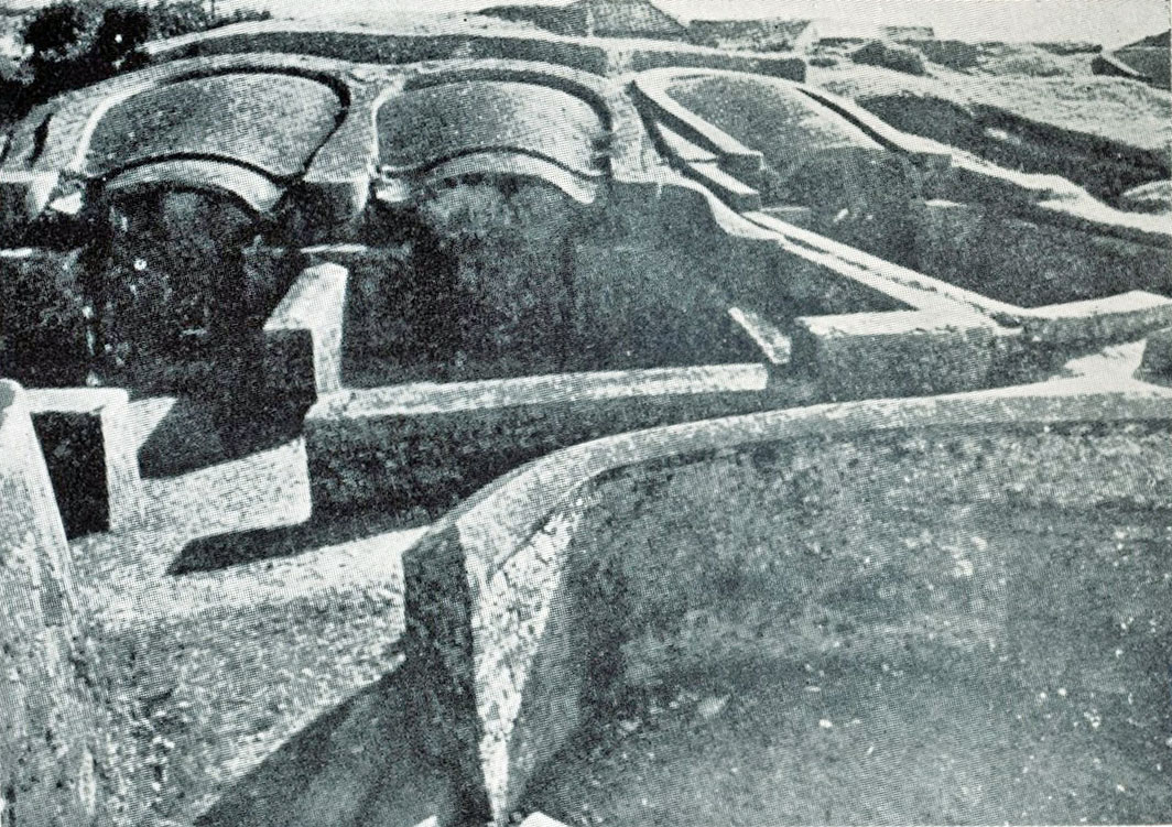 Tombs at Tsujibaru, Naha, Okinawa before WWII